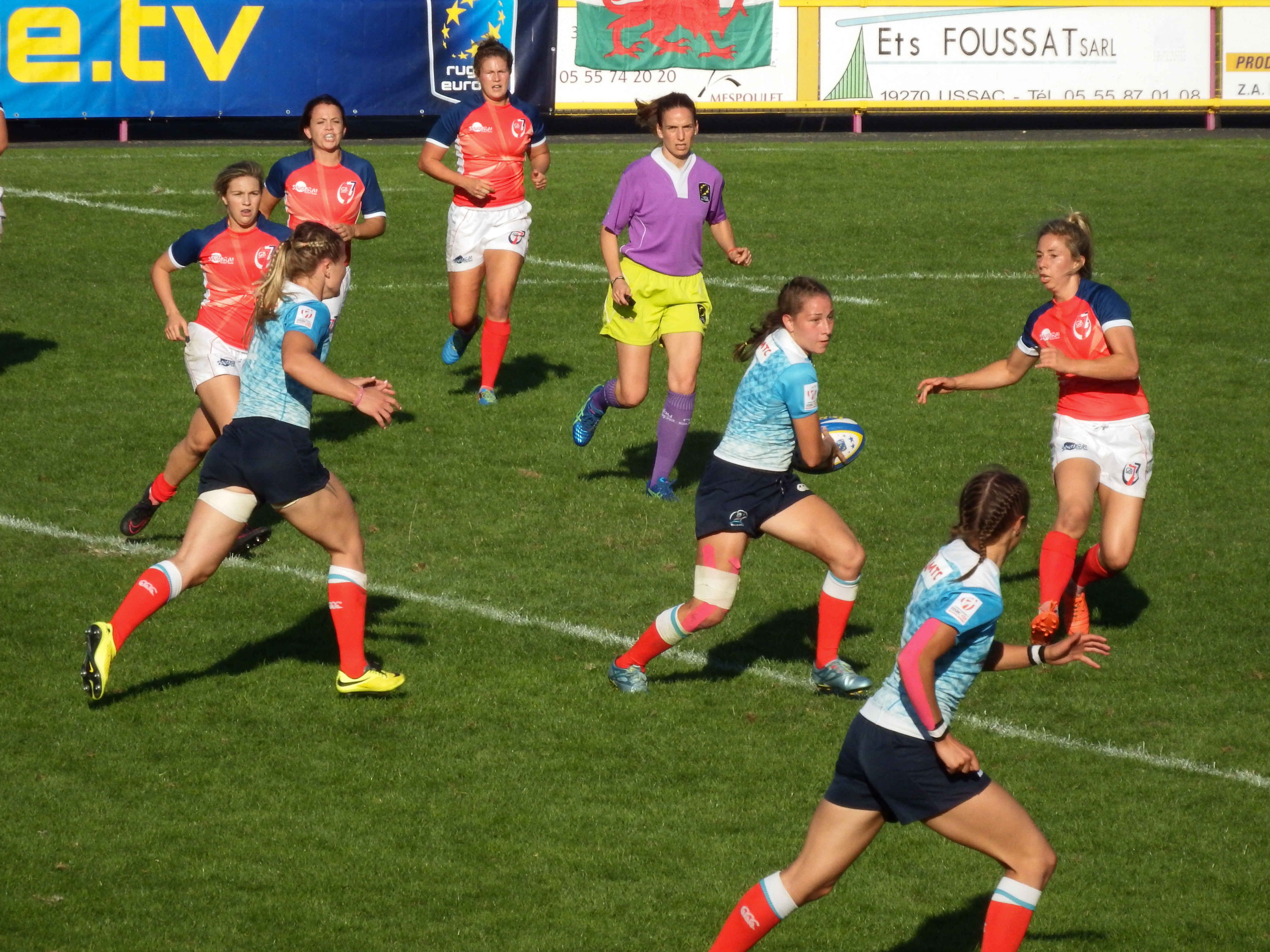 Malemort Sevens 2016 — 24 September 2016, stade Raymond-Faucher. Match between: Russia — GB Royals